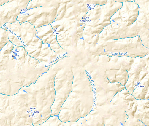 Image of creeks, streams, and lakes in Tucker, DeKalb County, Georgia, United States from the USGC National Map Viewer.